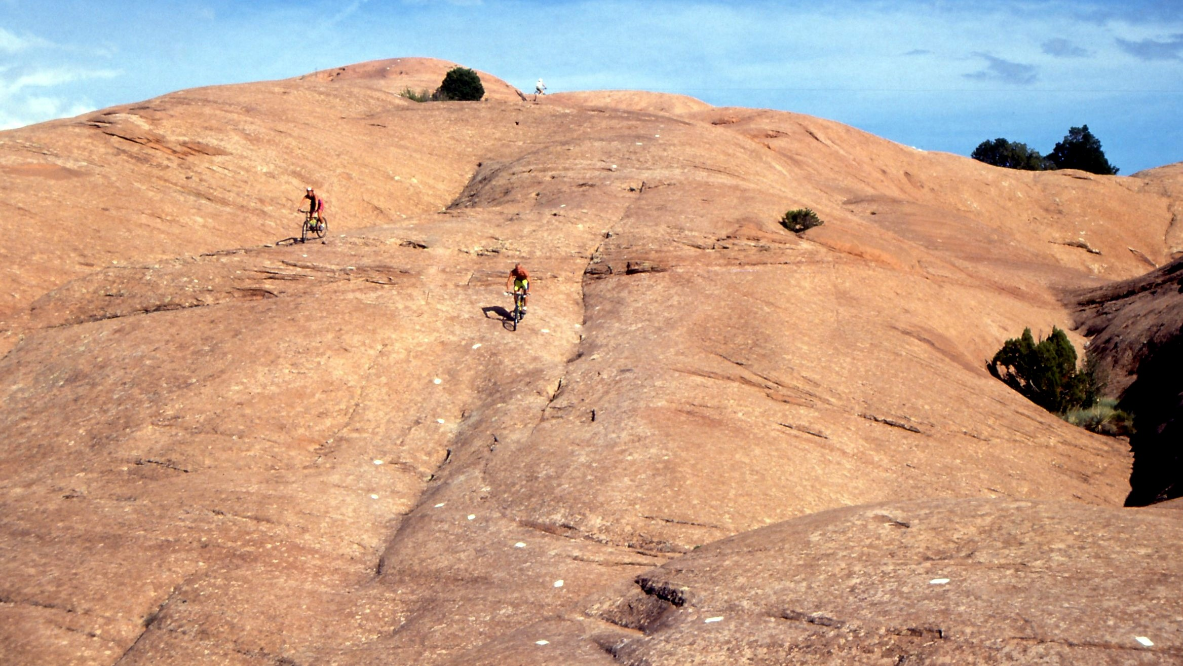 Slickrock mountain bike trail near Moab, Utah, USA